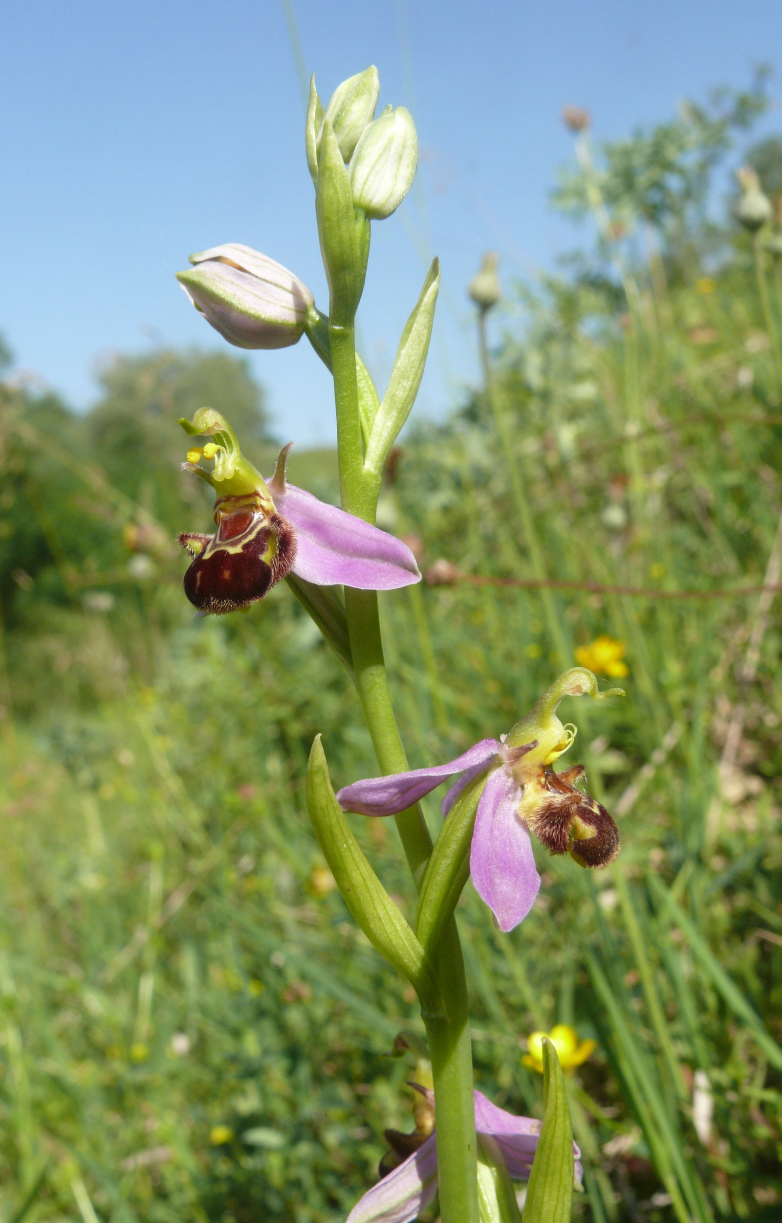 Ophrys apifera, Tauberland